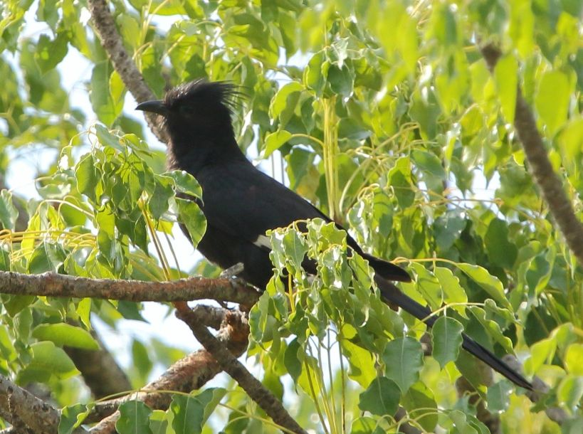 Melanic Jacobin cuckoo (Clamator jacobinus) near Nzuze River, KwaZulu-Natal.